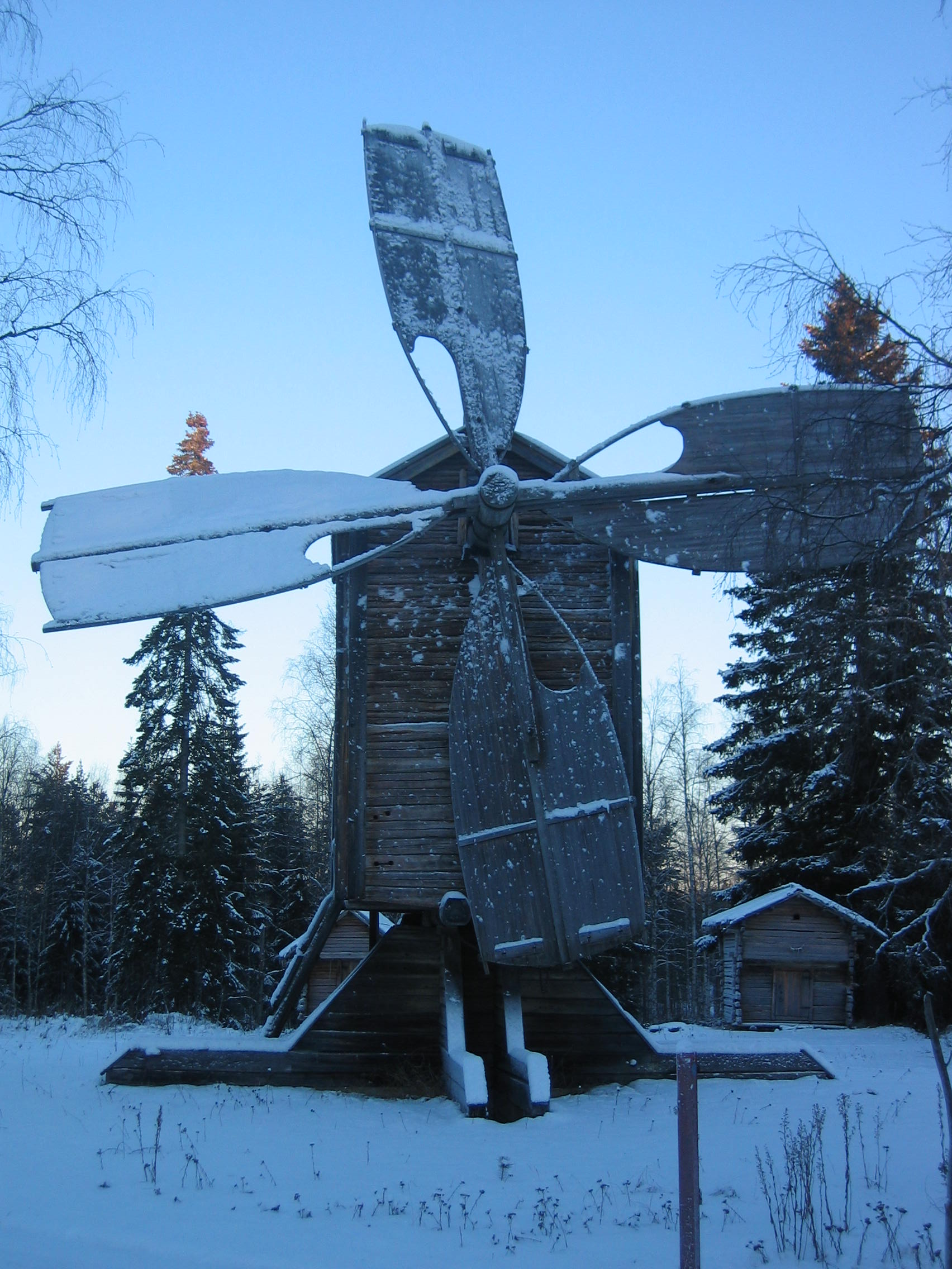 A windmill in the Uutela area of Jylhämä, a village next to the power plant of the same name in the Oulu river in Vaala, Finland.